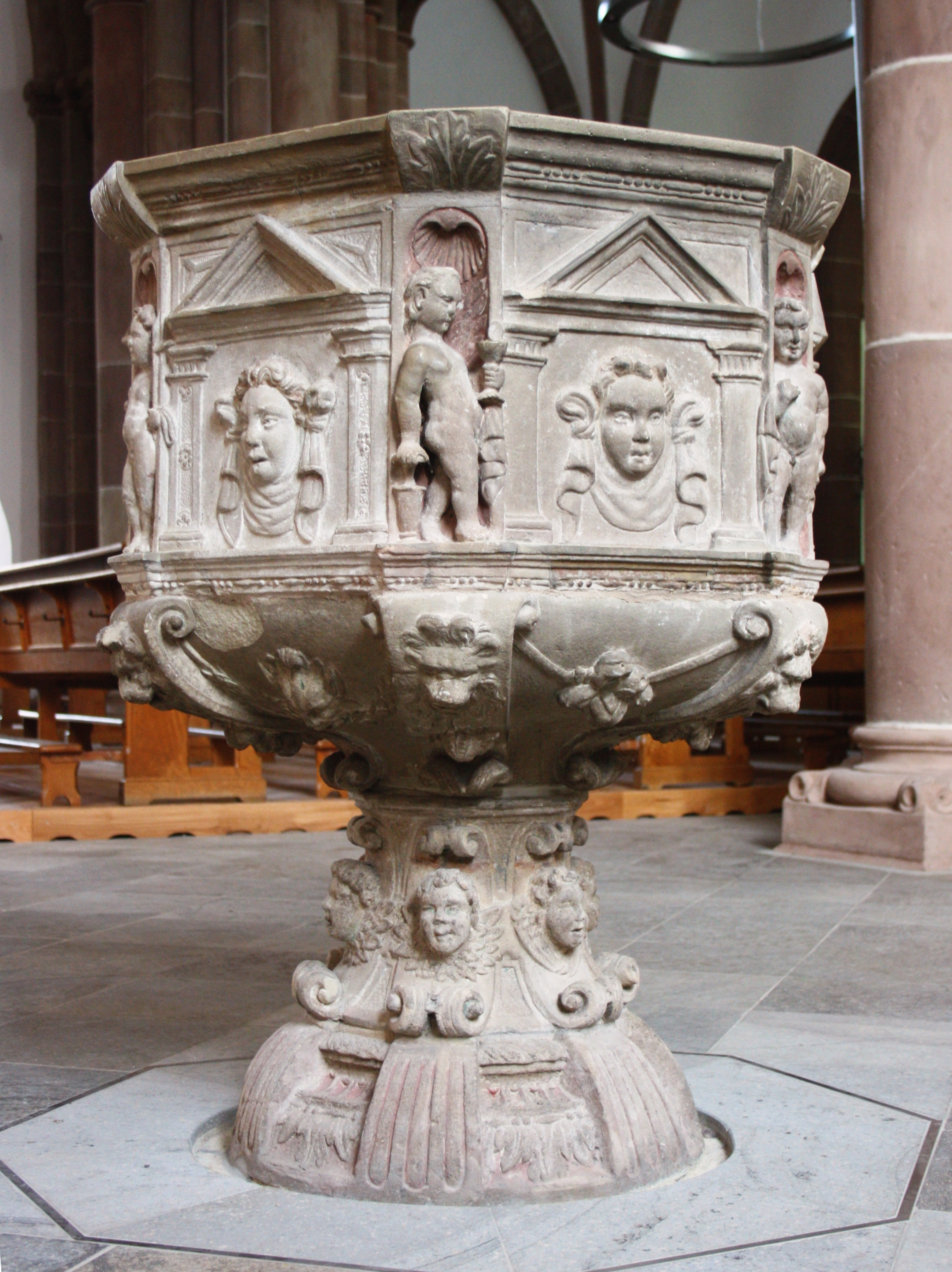 Warburg, Germany. Neustadt church, baptism.